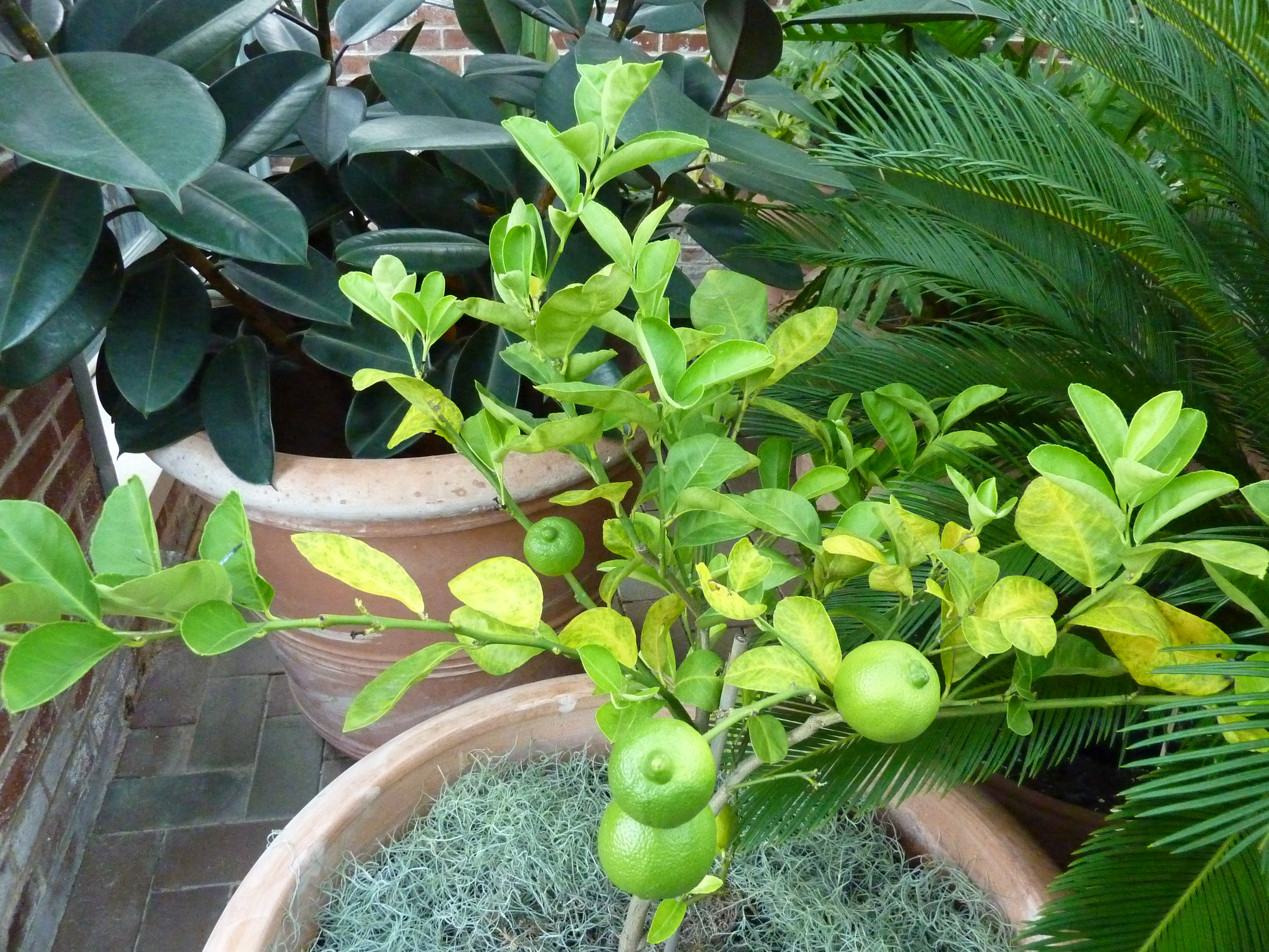 Sweet lemon, Citrus limetta 'Millsweet', in the Linnean House of the Missouri Botanical Garden